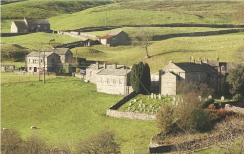 The Keld Resource Centre buildings, Upper Swaledale